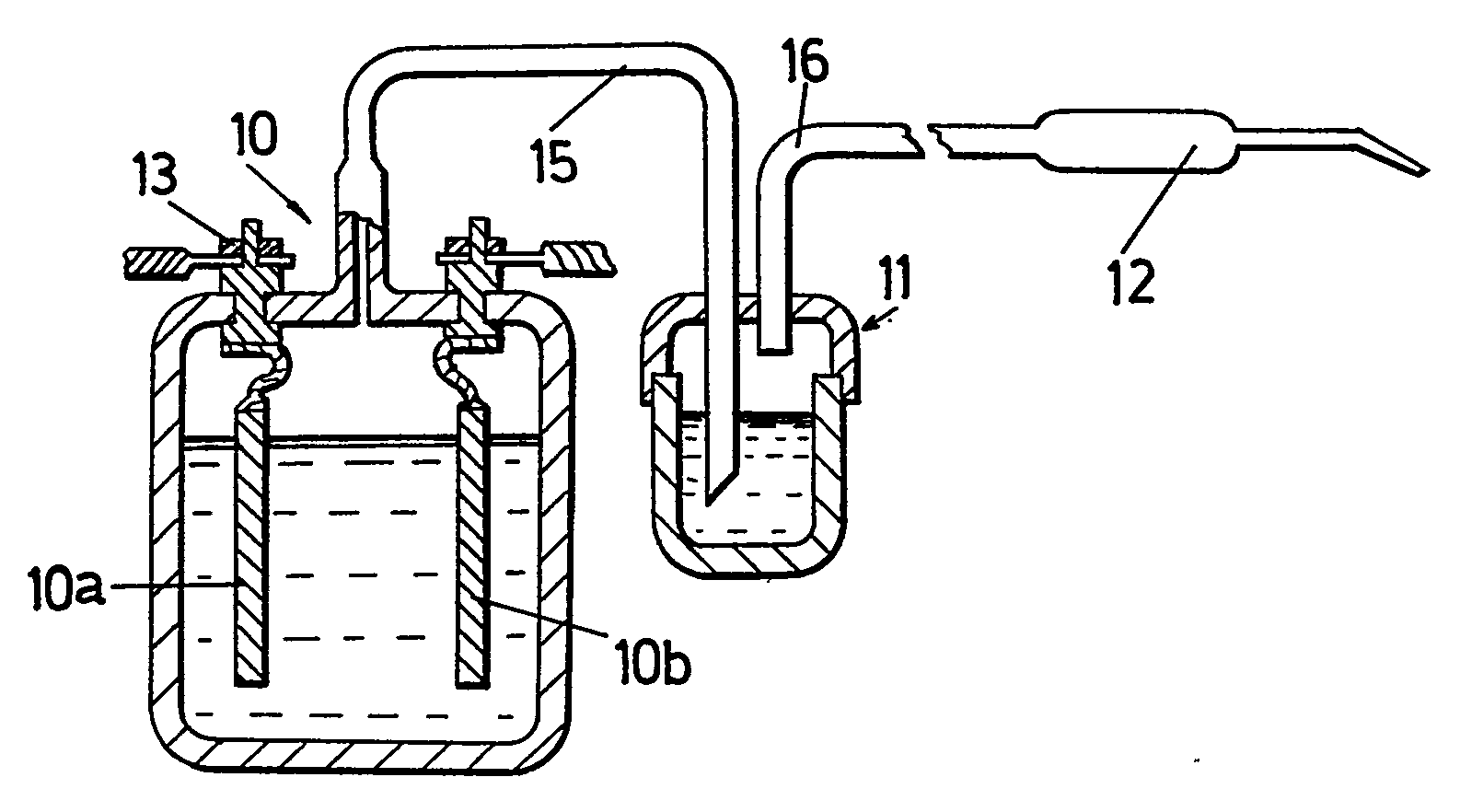 Brown's Gas Bubbler